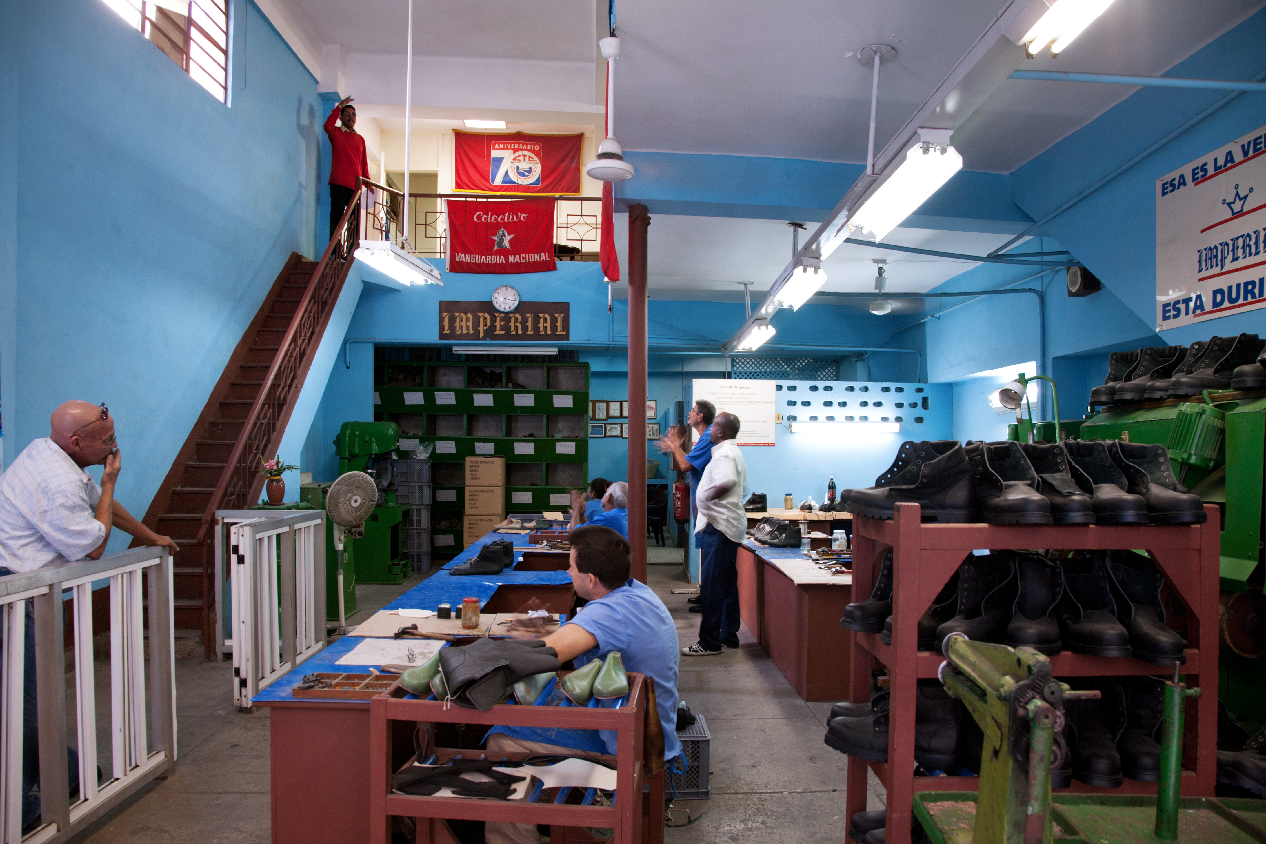 A political harangue by a revolutionary cadre at the Imperial shoe factory. Havana (La Habana), Cuba